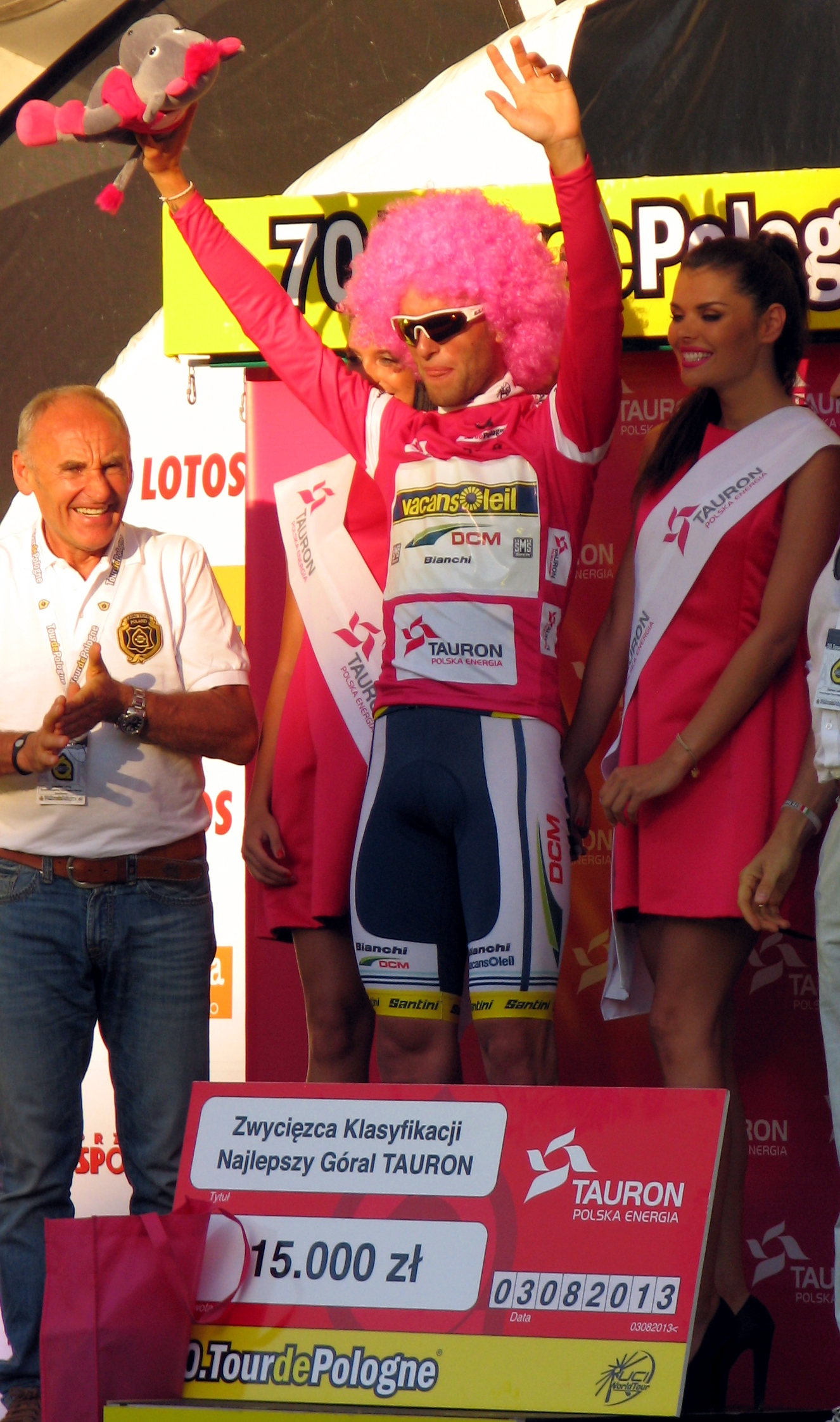 Tomasz Marczyński - 1st place of mountains classification (Tour de Pologne 2013).